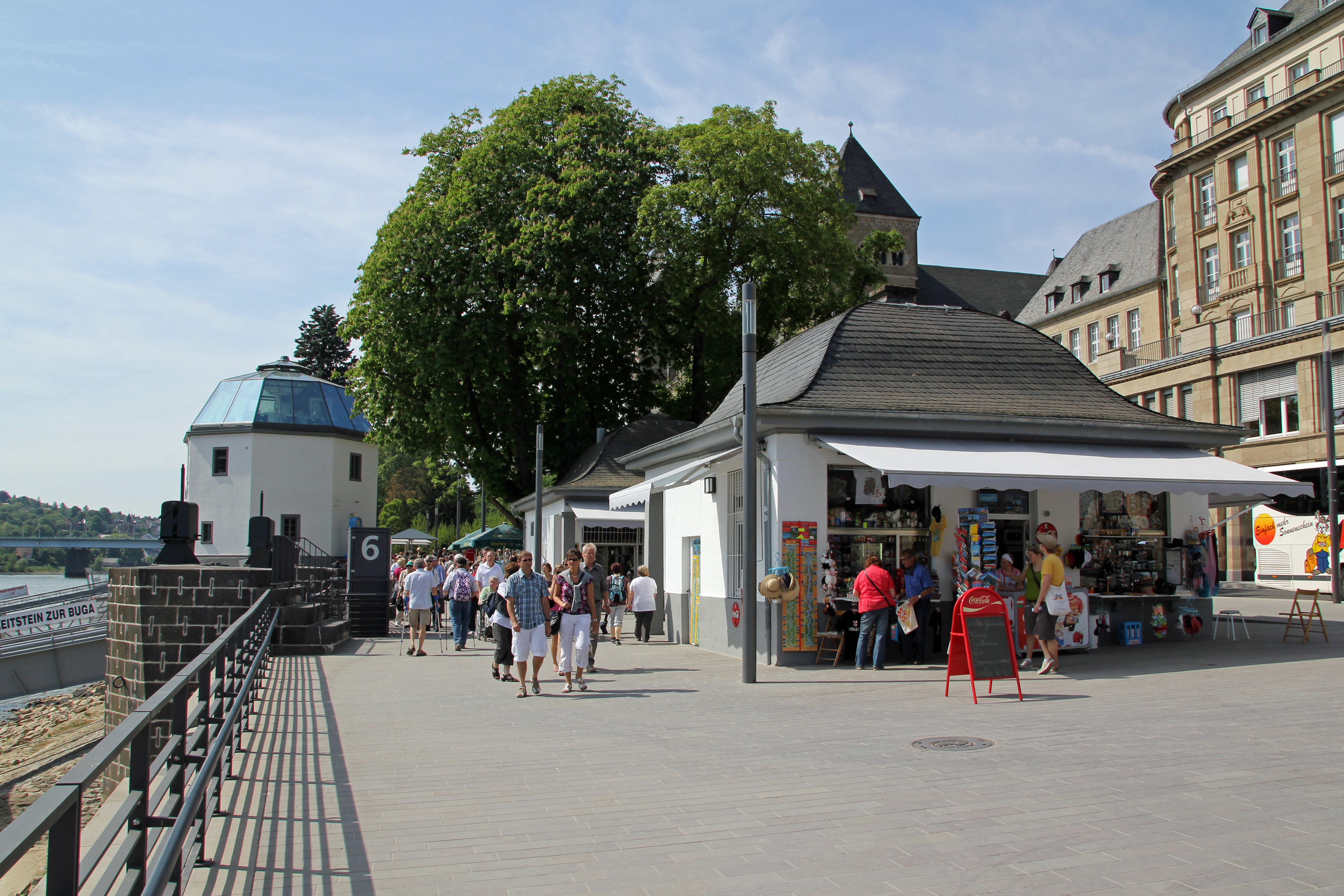 Rhine park in Koblenz